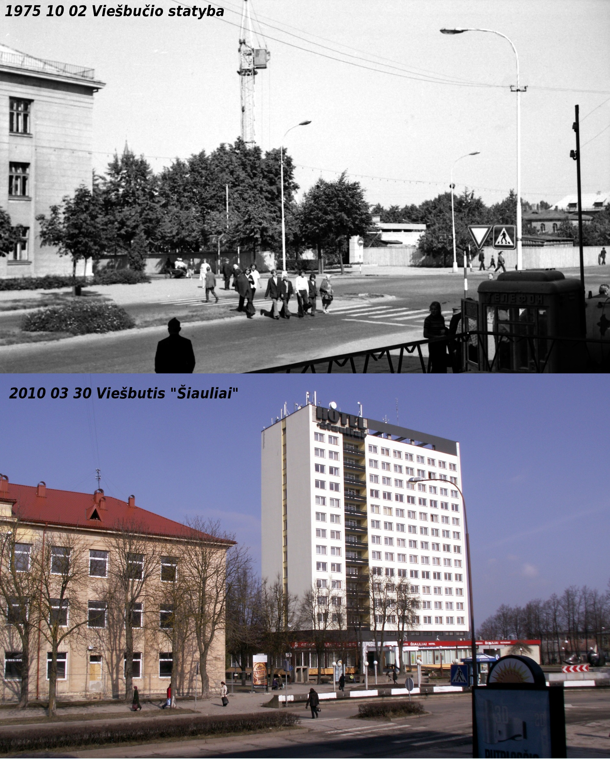 Hotel „Šiauliai“, Lithuania 1975-2010